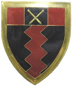 SADF 10 Artillery Brigade emblem